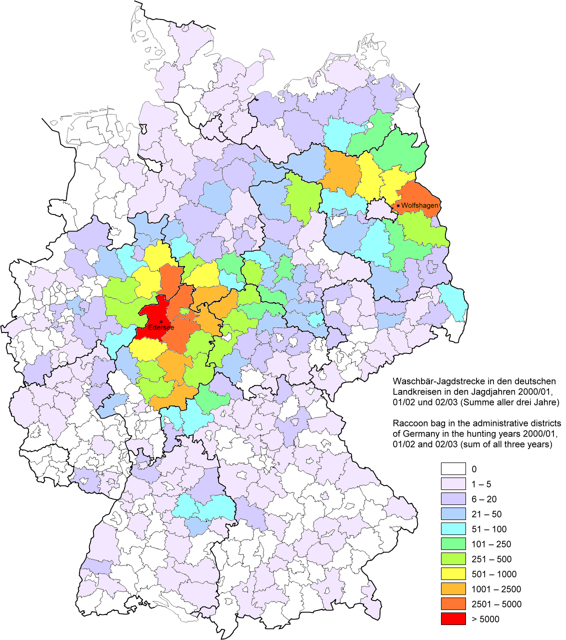 Raccoon bag in the administrative districts of Germany in the hunting years 2000/01, 01/02 and 02/03 (sum of all three years) The map is based on the data provided by Ingo Bartussek on his website.